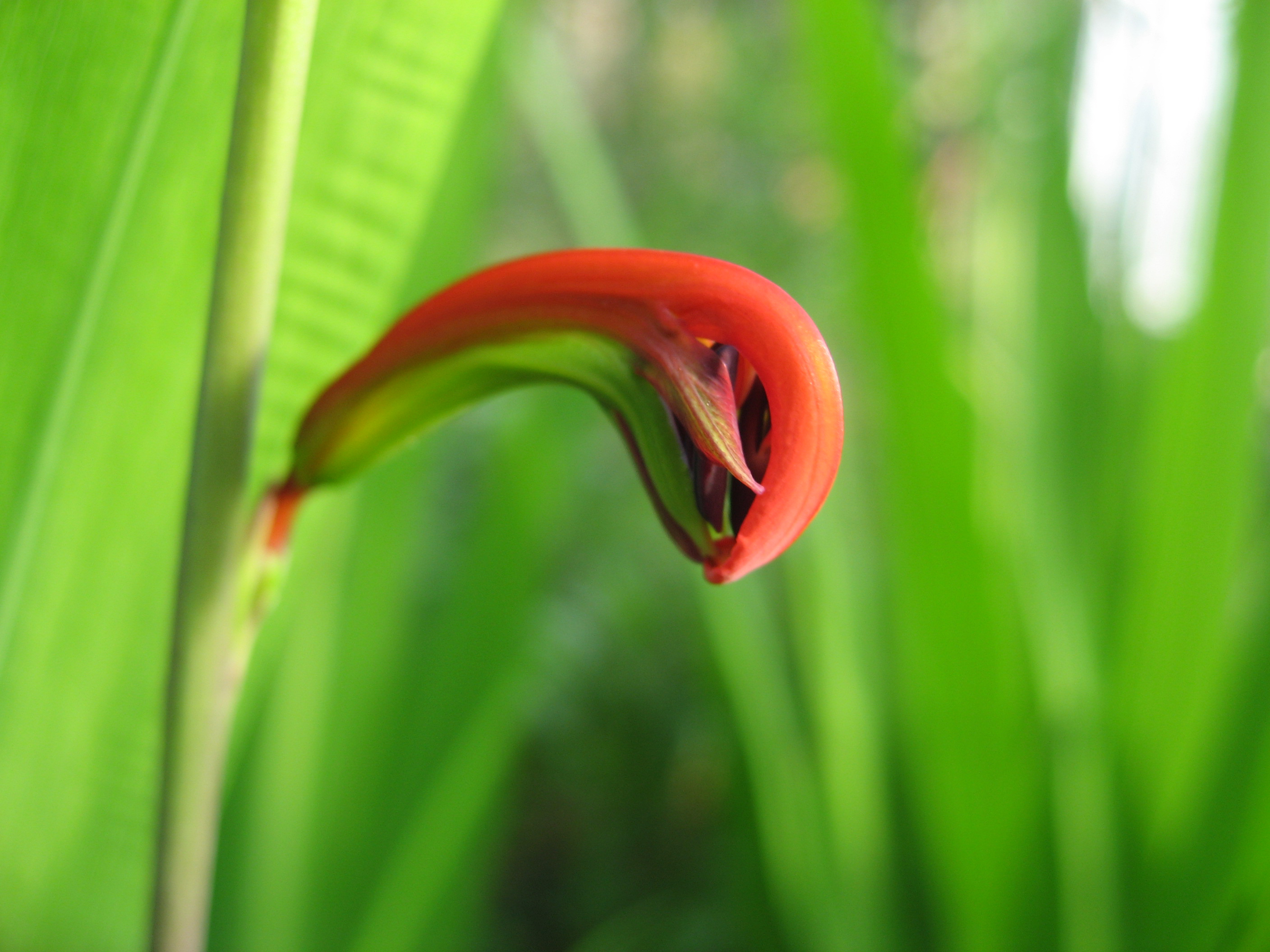 Chasmanthe bicolor